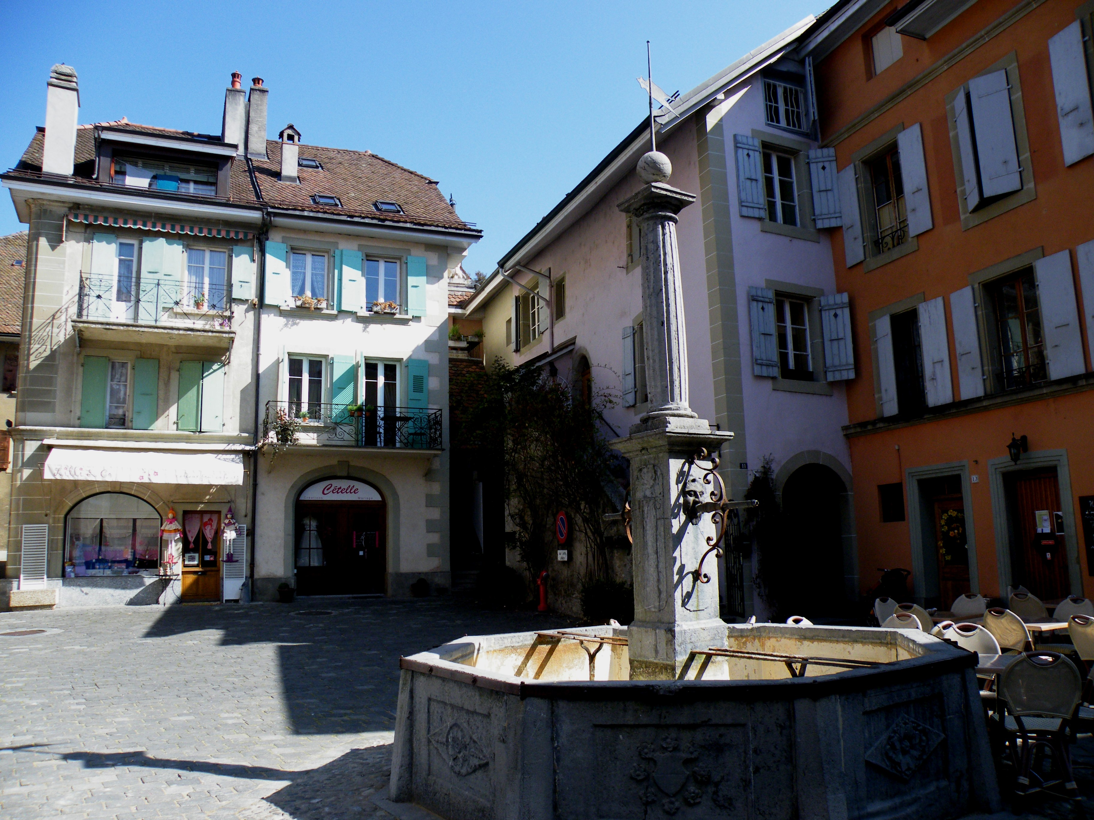 Old fountain, Lutry, Switzerland